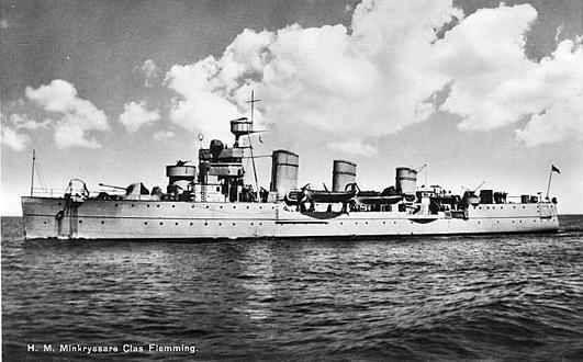 Postcard picture of the Swedish minecruiser HMS Clas Fleming.